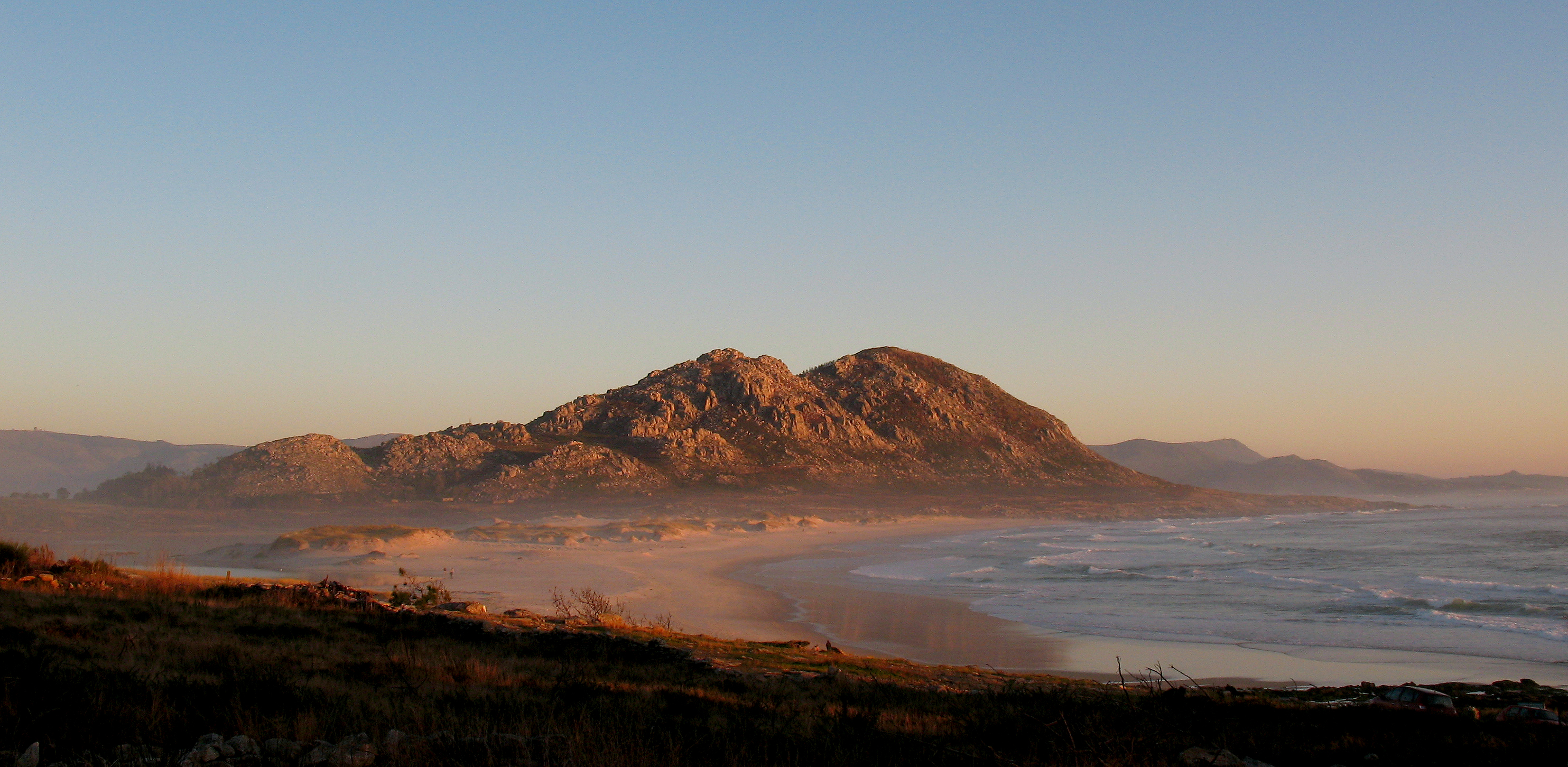 Area Maior beach and Louro mount (Muros).